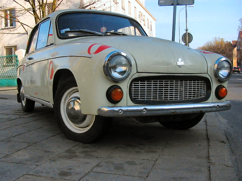 Syrena 105 from Polish Wikipedia.